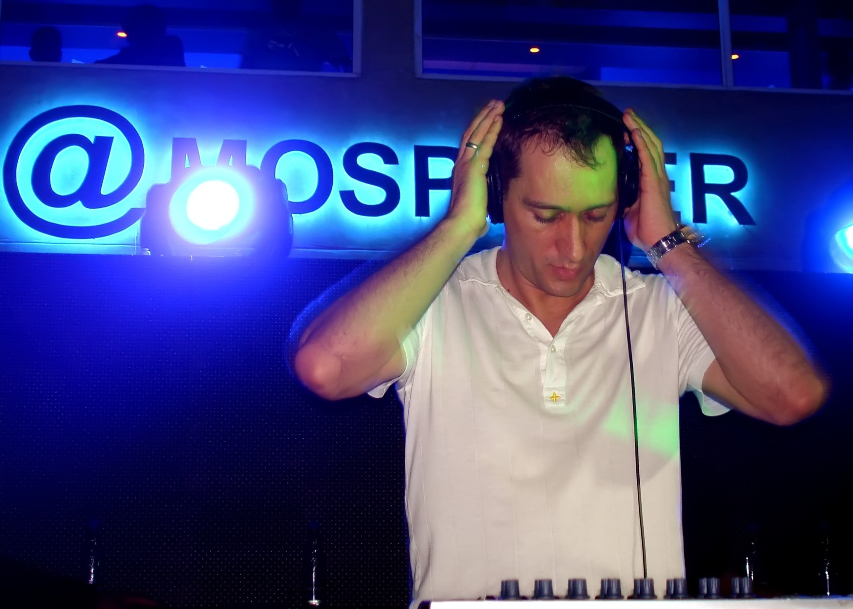 Paul van Dyk doing a 3 hour set at club @mospheer in Cape Town, South Africa.